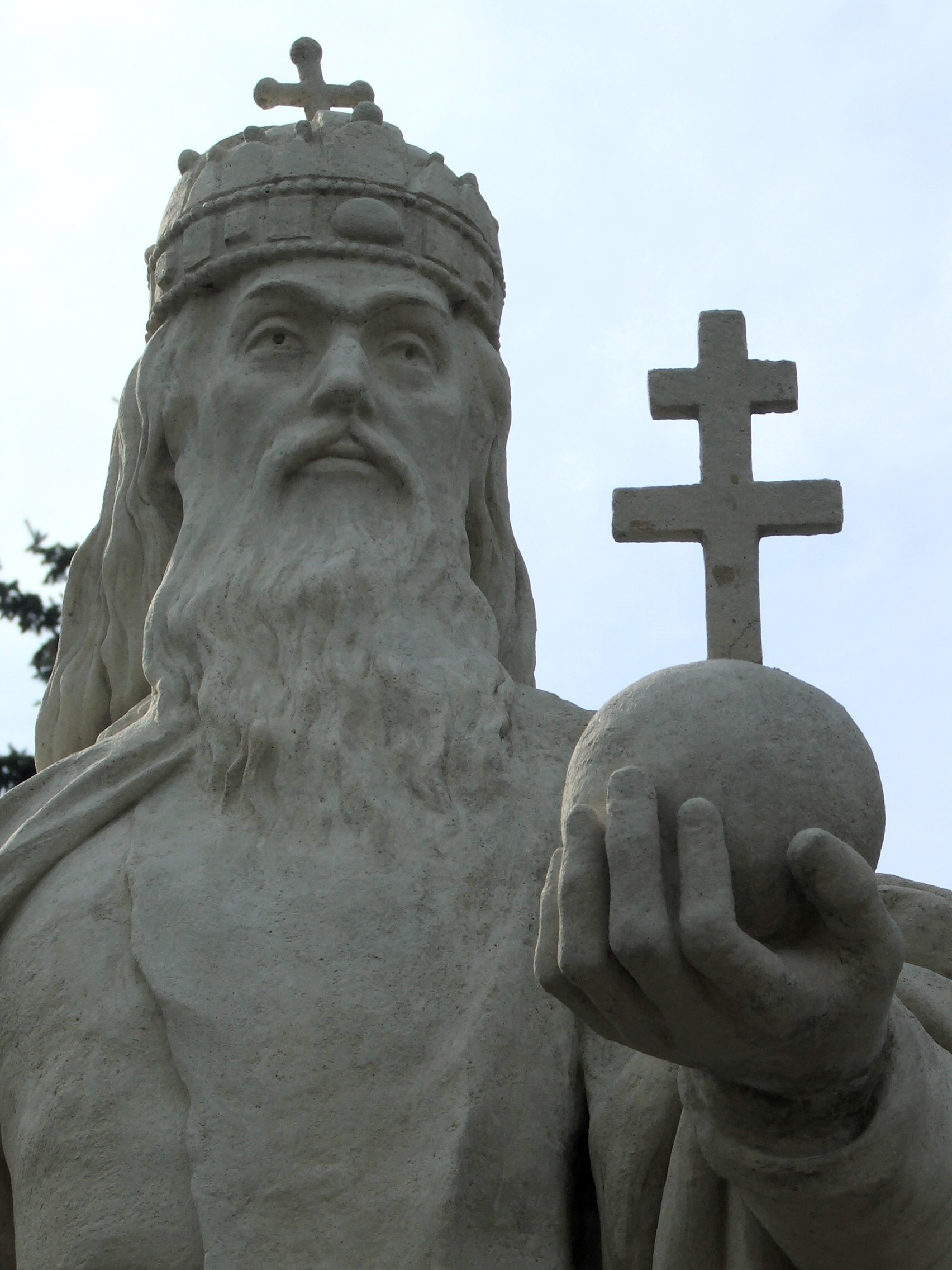 Statue of King St. Stephen of Hungary in Esztergom, Main Square, Holy Trinity statue.